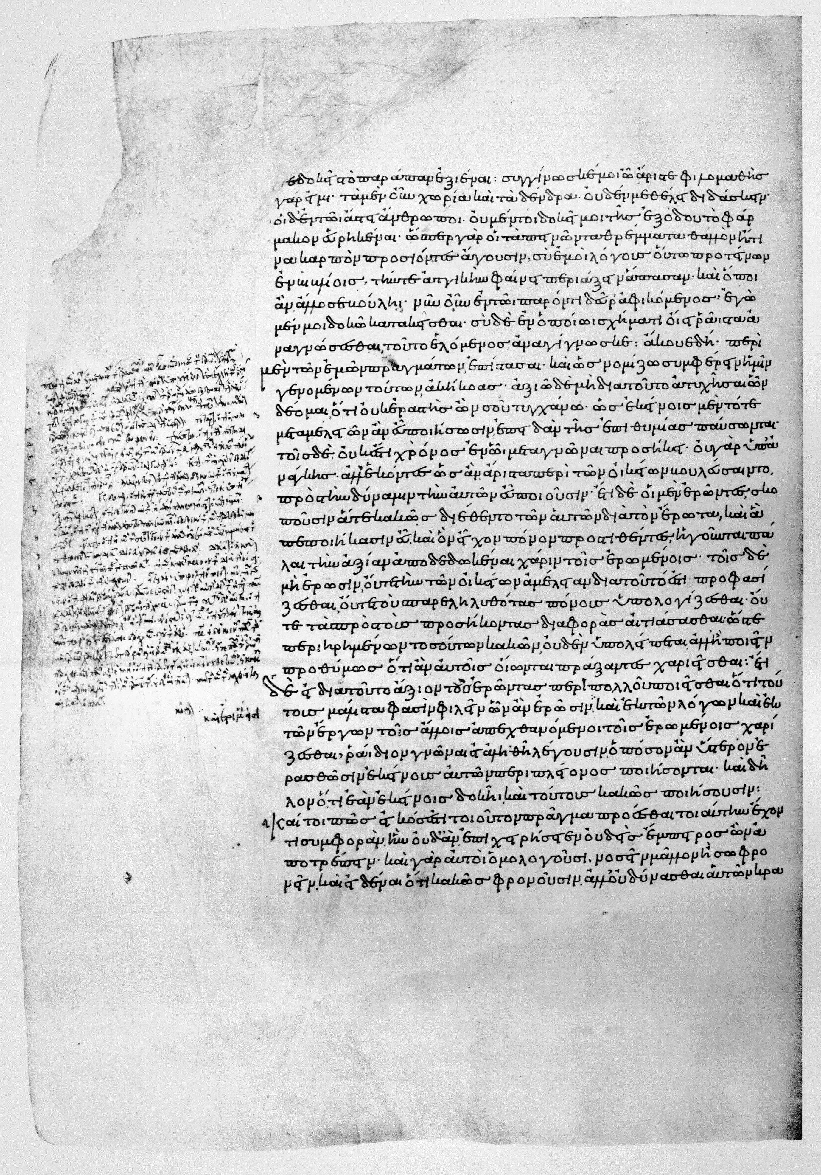 Page of the Codex Oxoniensis Clarkianus 39 (Clarke Plato). Dialogue Phaidros.